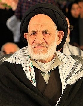 Seyyed Alireza Ebadi and Seyyed Mohammad Baqir Ebadi